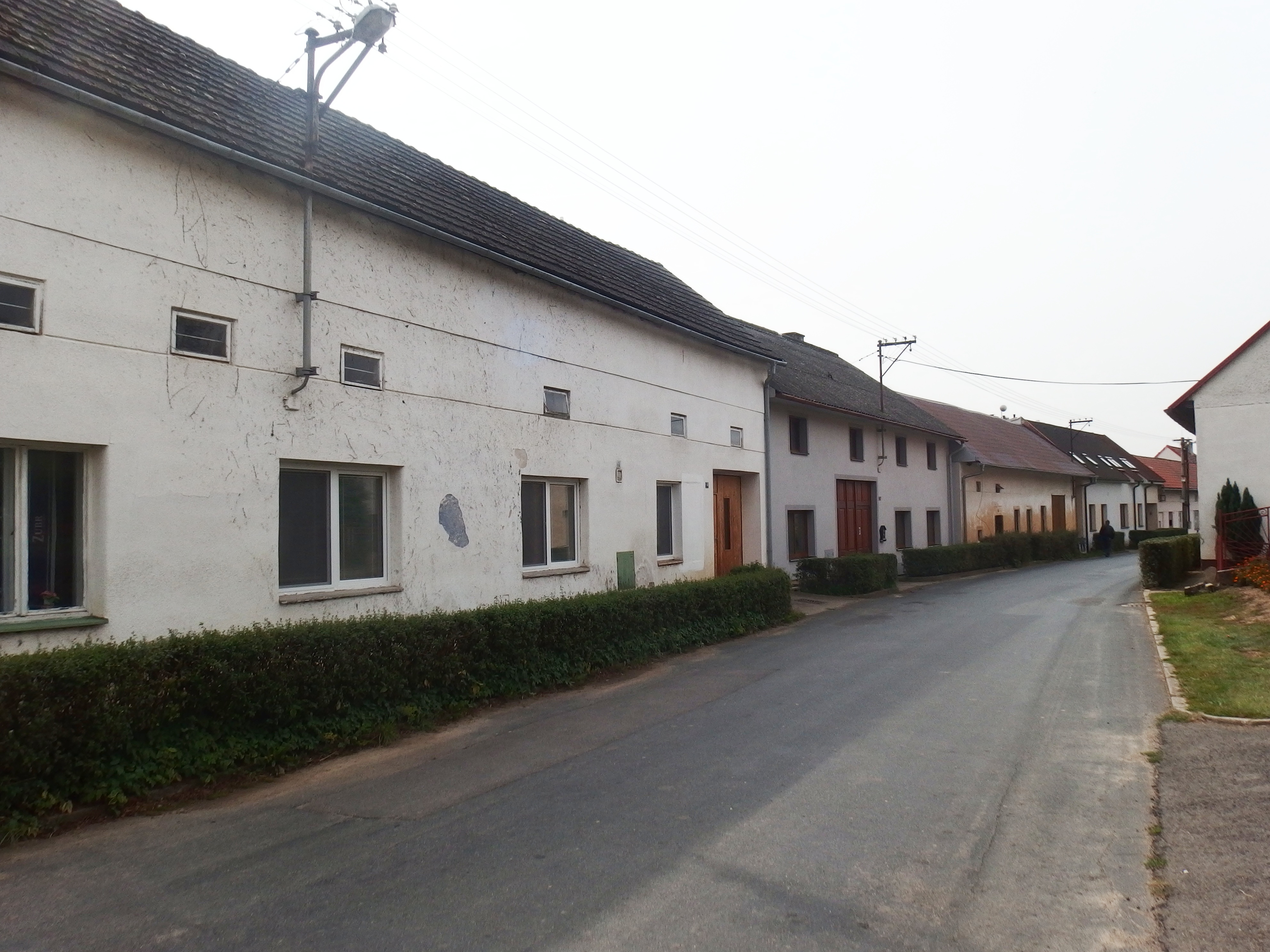 Racková, Zlín District, Czech Republic.